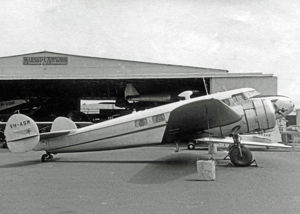 Lockheed 10B VH-ASM of Marshall Airways, at Bankstown Airport, Sydney